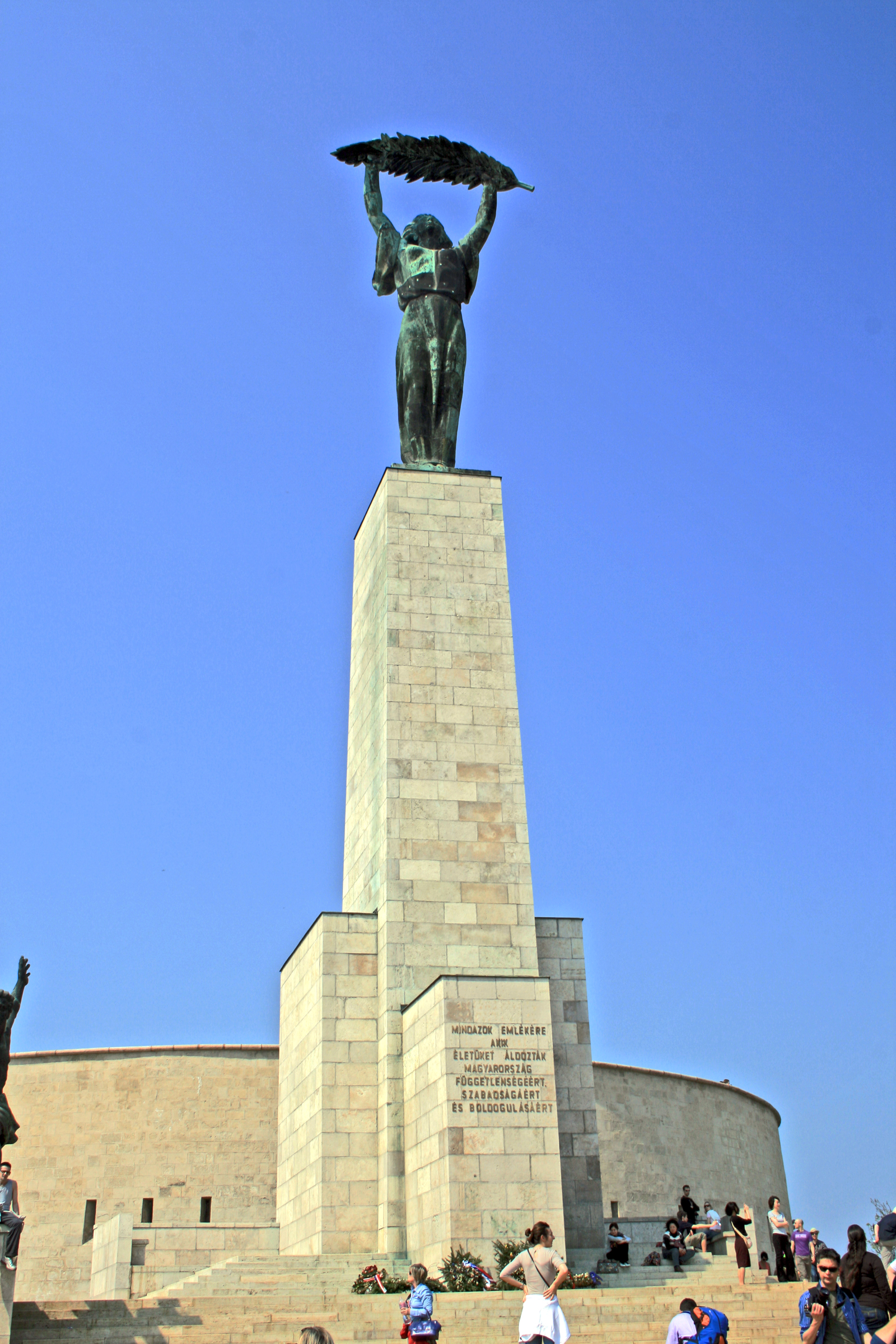 Statue of Freedom on Gellért Hill over Danube river, Budapest, Hungary